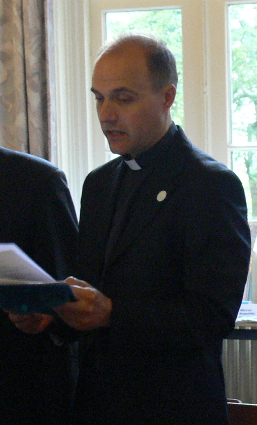 Rev_Dr_Kolupaev